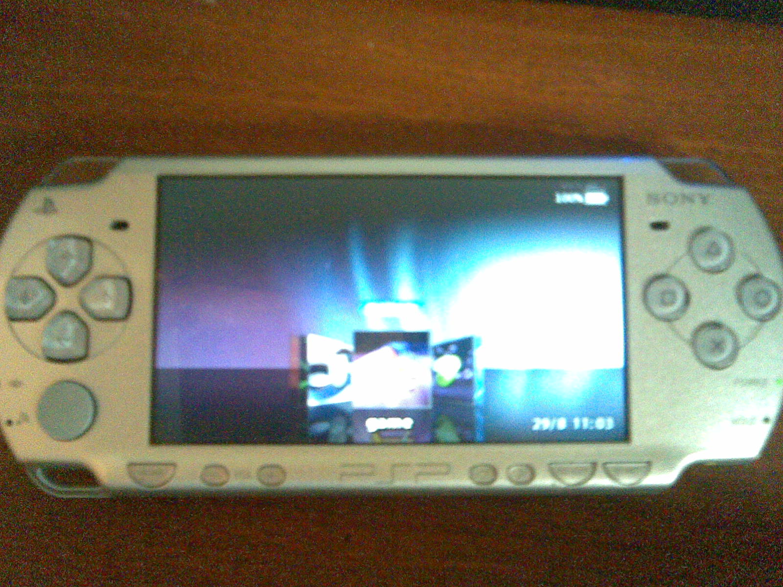 cfw xmb modificado